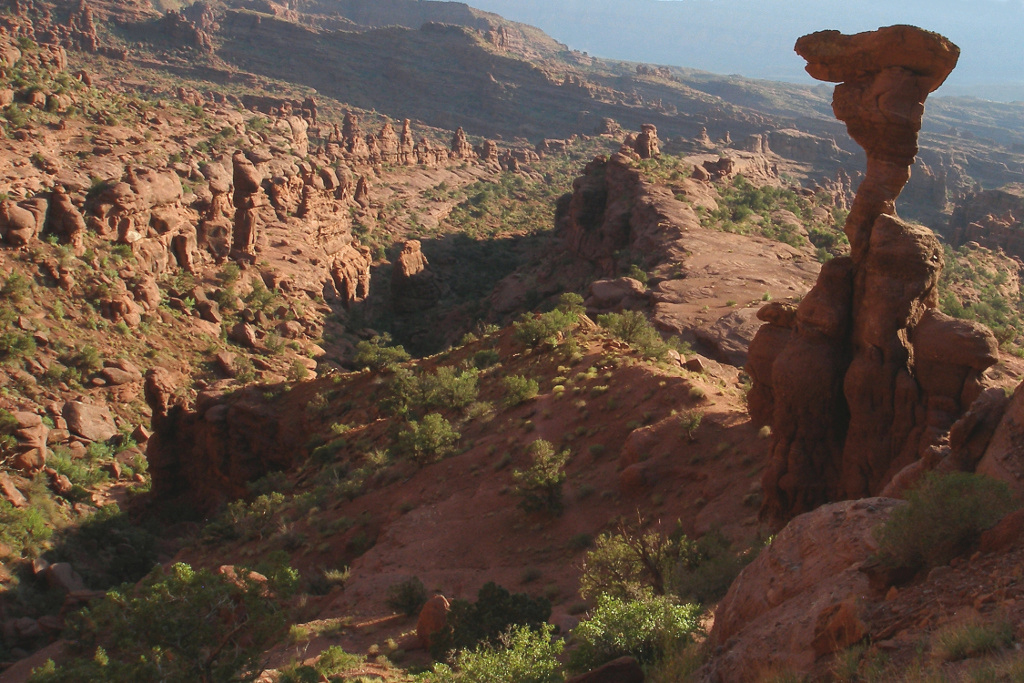 Toadstool, Fisher Towers, Utah, USA